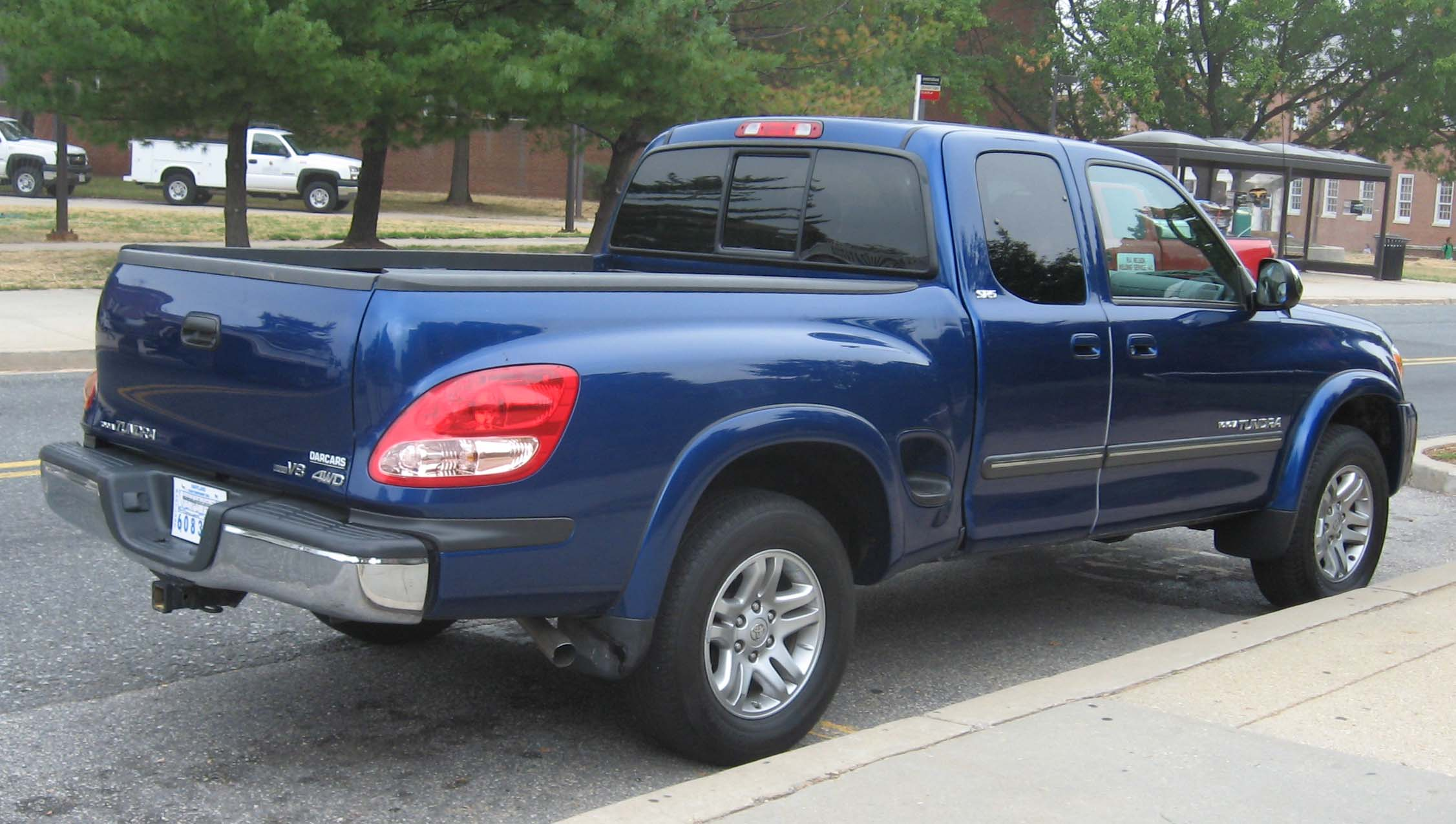 Toyota Tundra photographed in College Park, Maryland, USA.